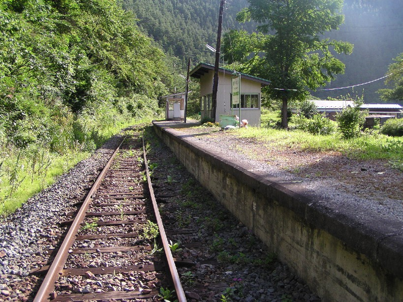 Iwate-Ōkawa Station, Iwaizumi, Iwate Prefecture, Japan